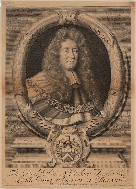 Sir Robert Wright (c1634-1689)